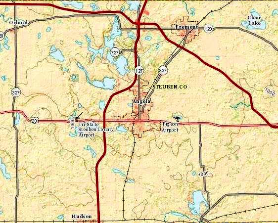 Steuben County, Indiana, USA map from the US Geological Survey's National Map. Color has been modified by TwoScarsUp